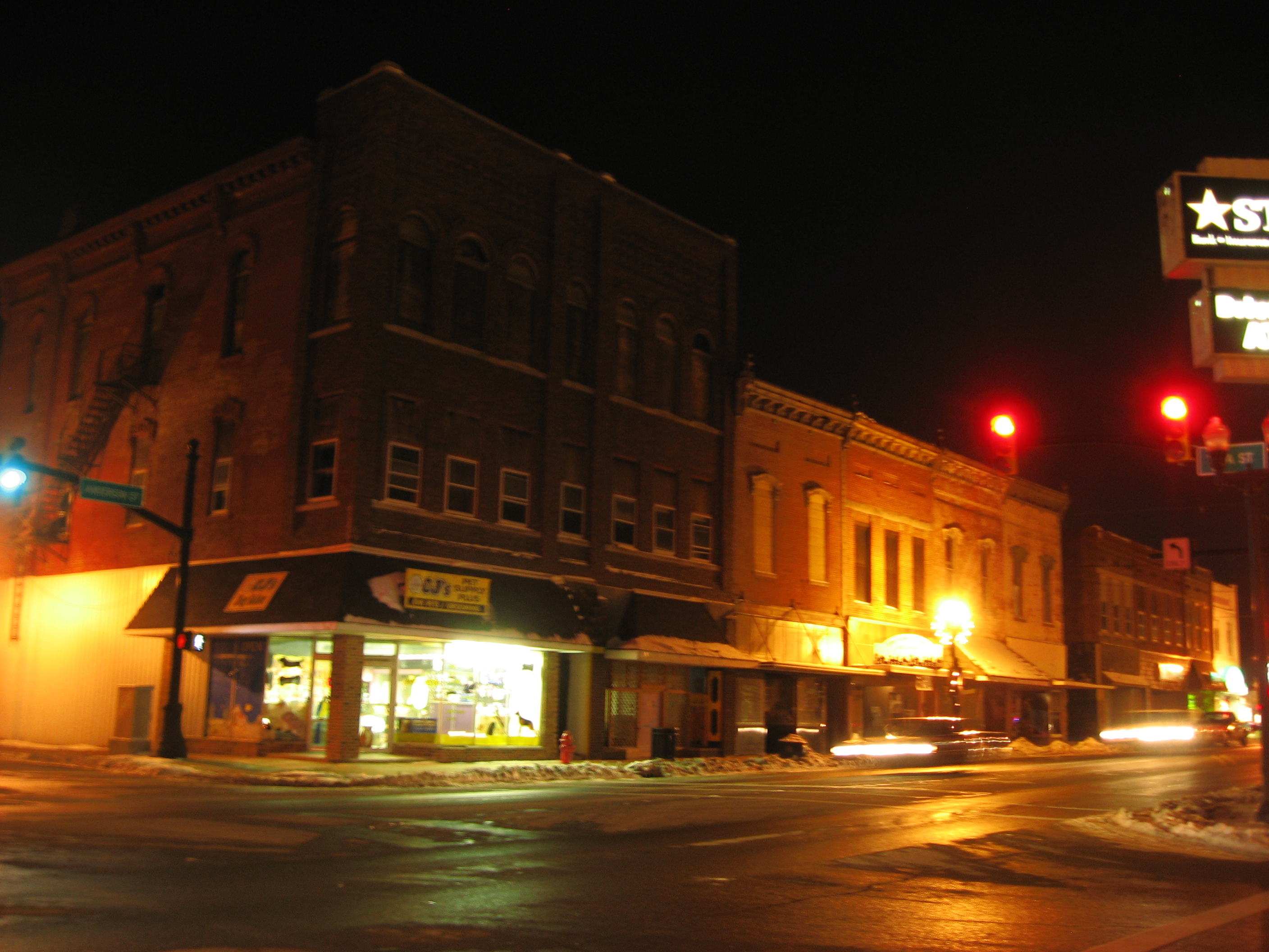 Buildings on the northwestern corner of the intersection of Anderson (State Road 13) and A Streets in central Elwood, Indiana, United States. These buildings are part of the Elwood Downtown Historic District, a historic district that is listed on the National Register of Historic Places.